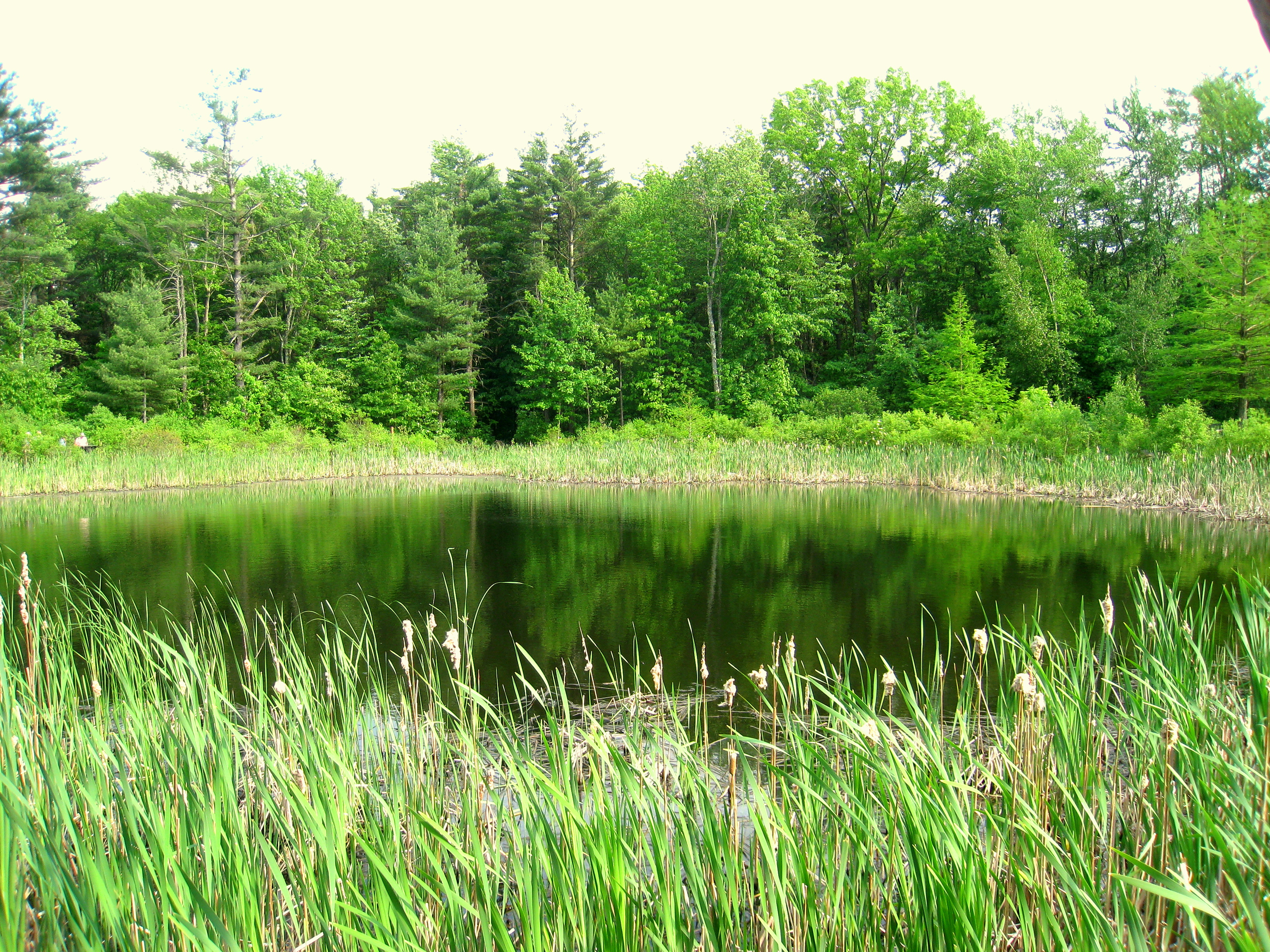 Pond in the Tower Hill Botanic Garden, Boylston, Massachusetts, USA.